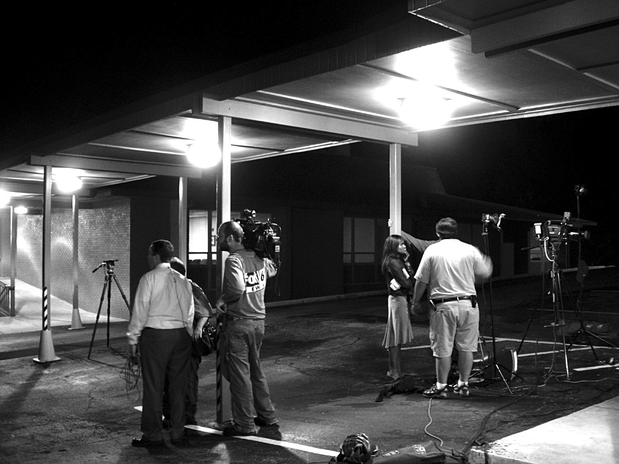 News crews standing by the wall for Natalee Holloway.